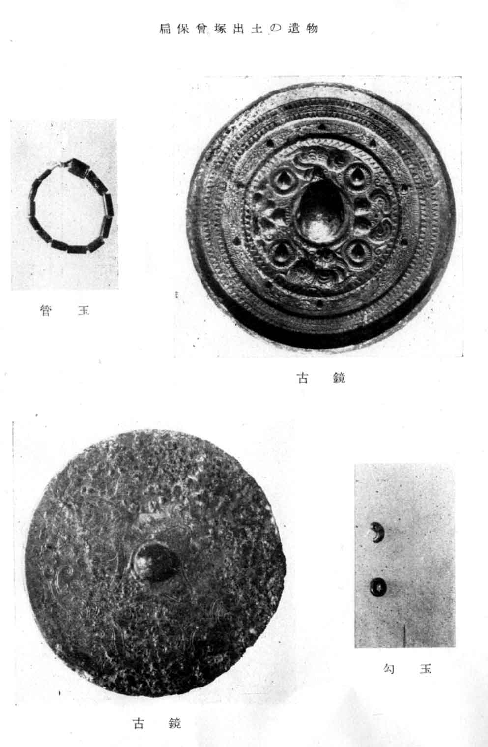 Bronze millor and so on, unearthed on Hebosozuka